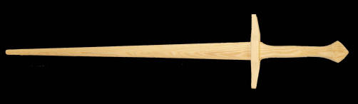 A wooden longsword in ash by Historic Arts Carpentry